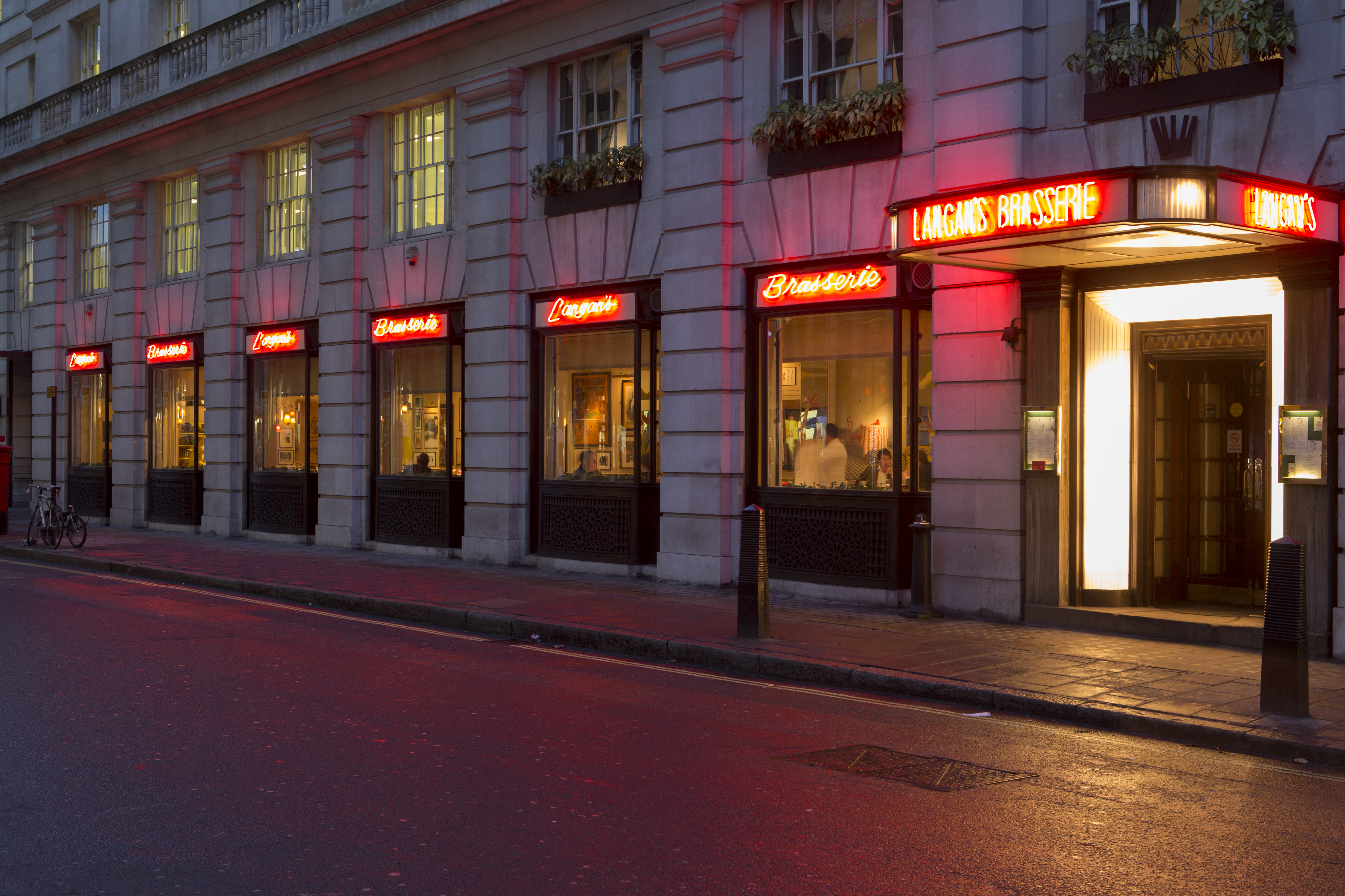 Langan's Brasserie Mayfair London Exterior night November 2012